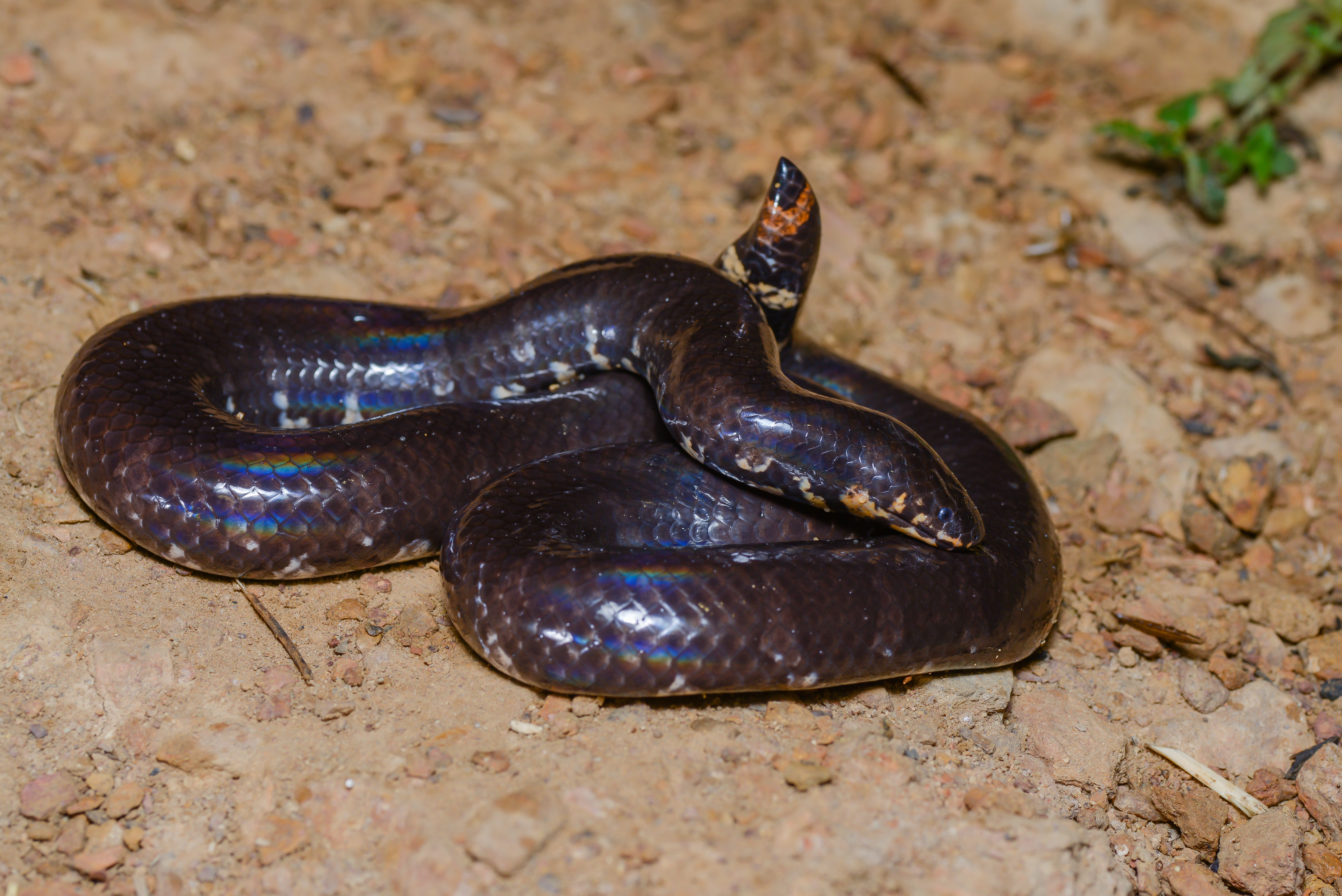 Kaeng Krachan District, Phetchaburi